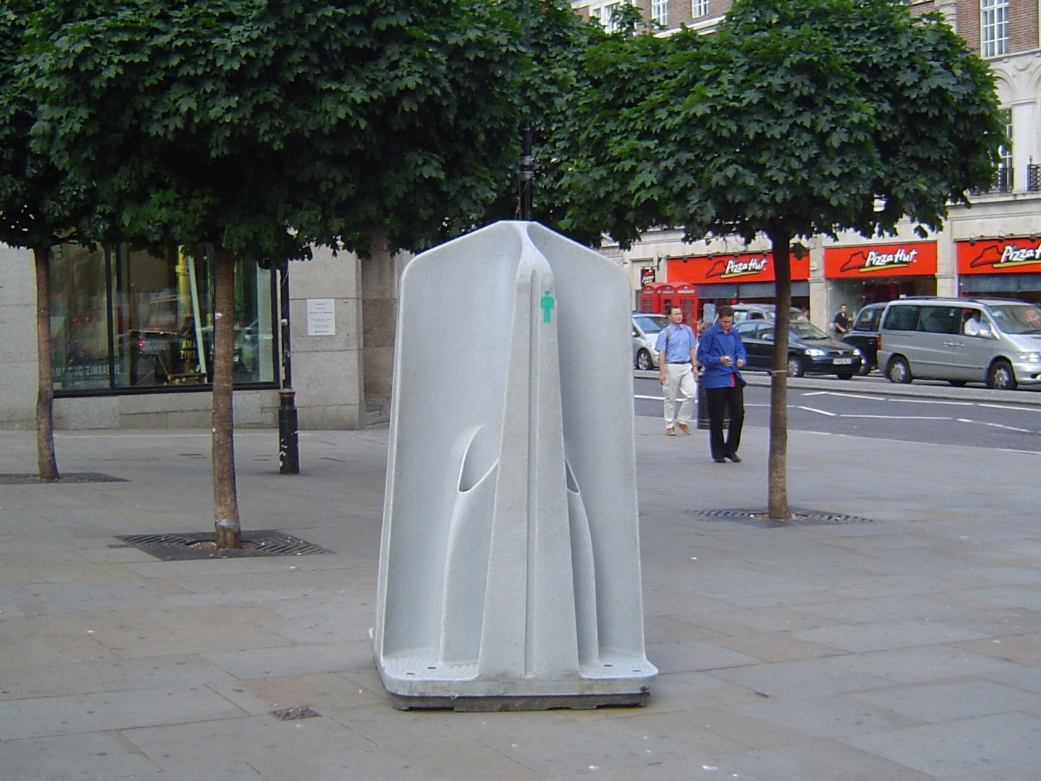 London urinal, July 2005 This was placed near Strand on 15th July 2005.